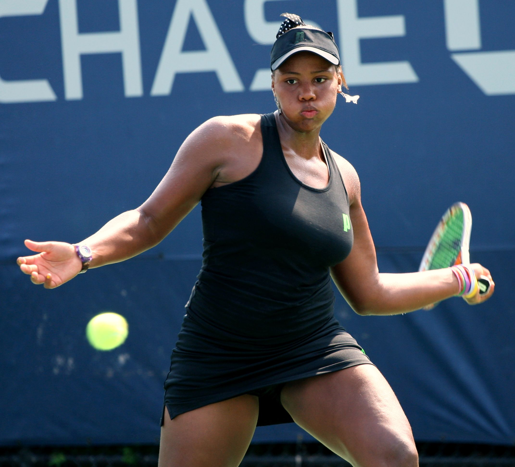 U.S. Open Juniors Sunday, Sept. 4, 2011